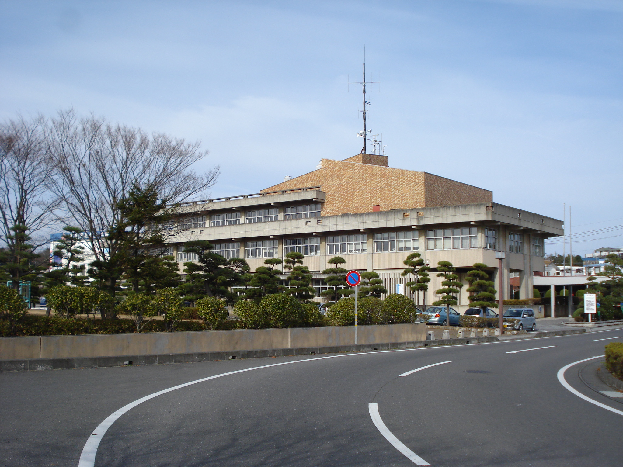 Oarai Town Hall